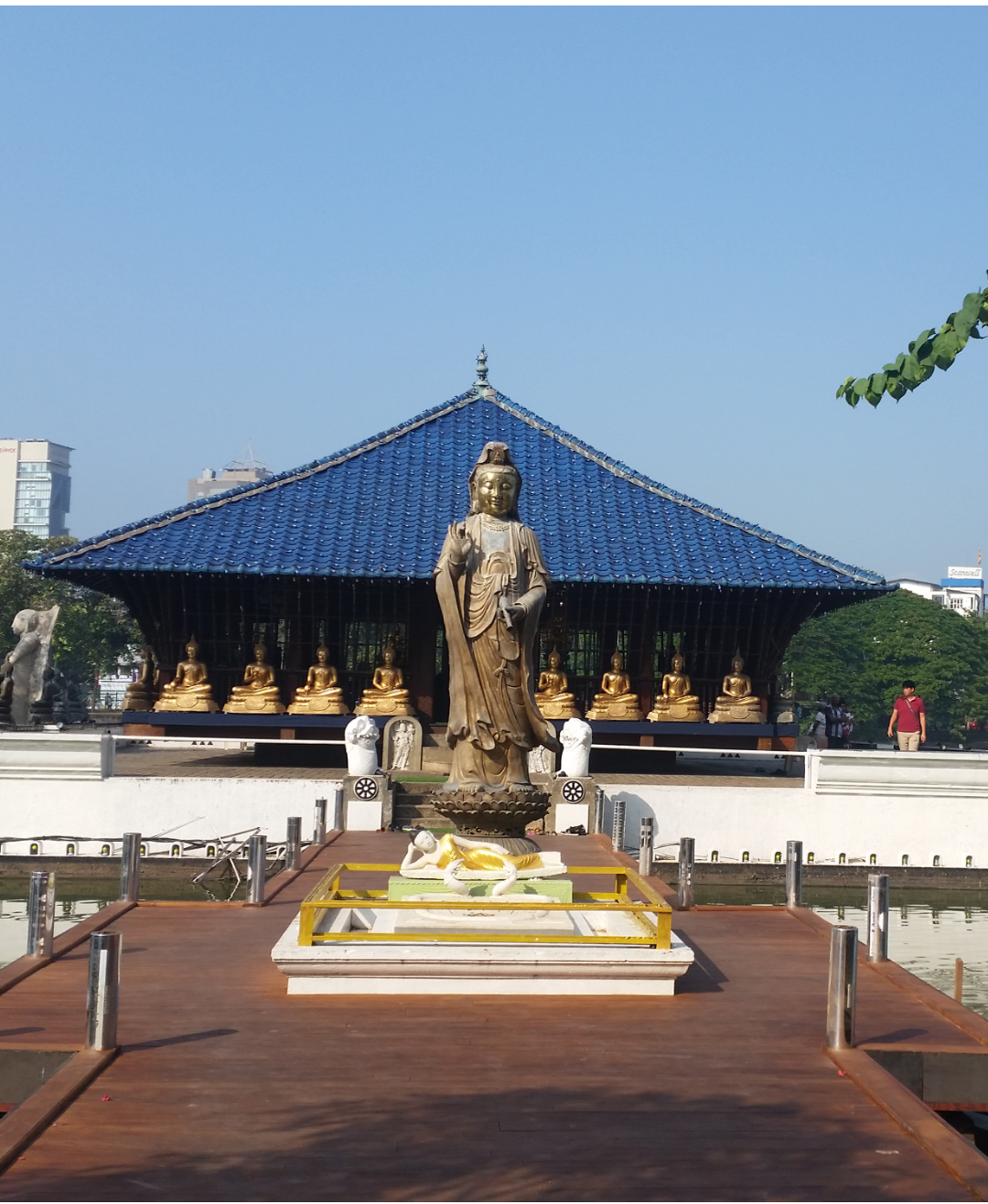 Seema Malaka, on an island in Beira Lake, Sri Lanka